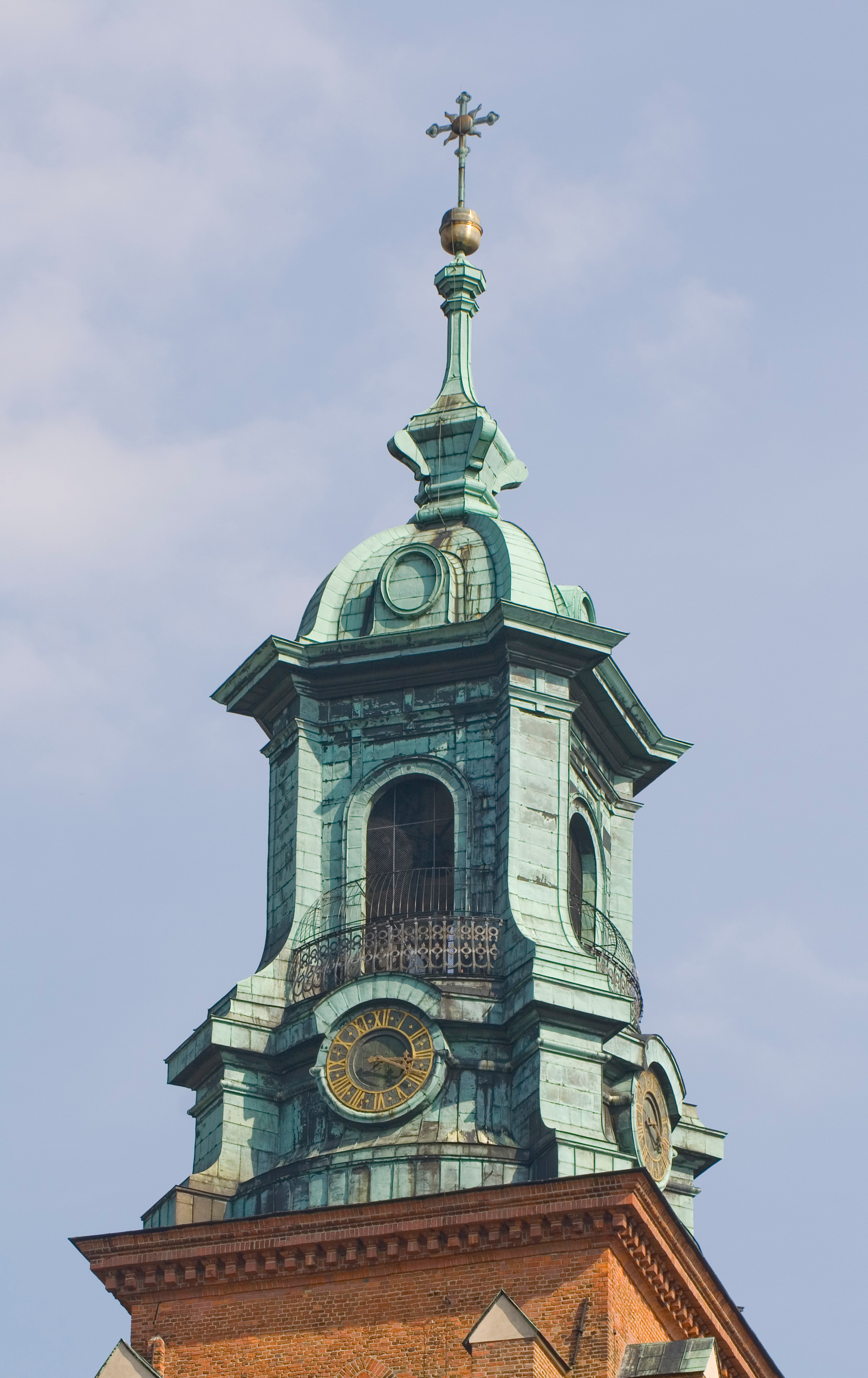 Exterior of the Gniezno Cathedral, Gniezno, Poland